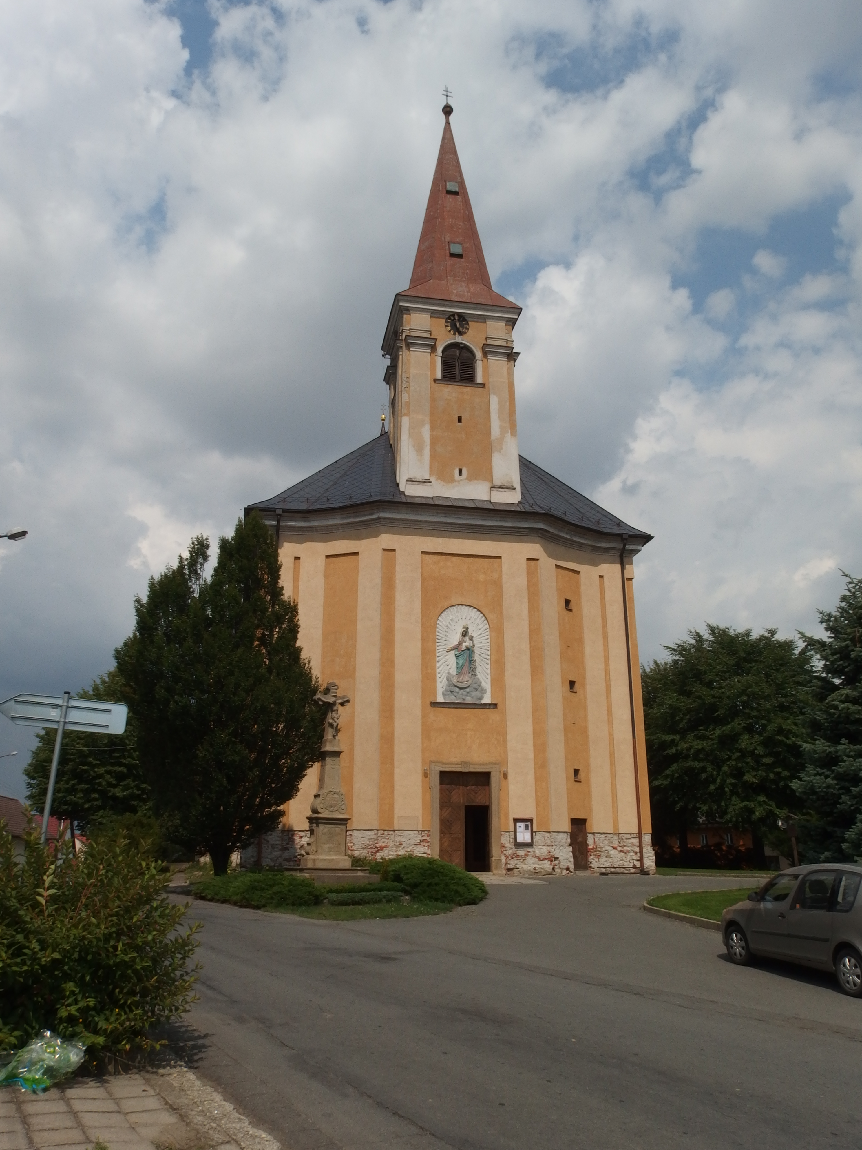 Všechovice, Přerov District, Czech Republic.